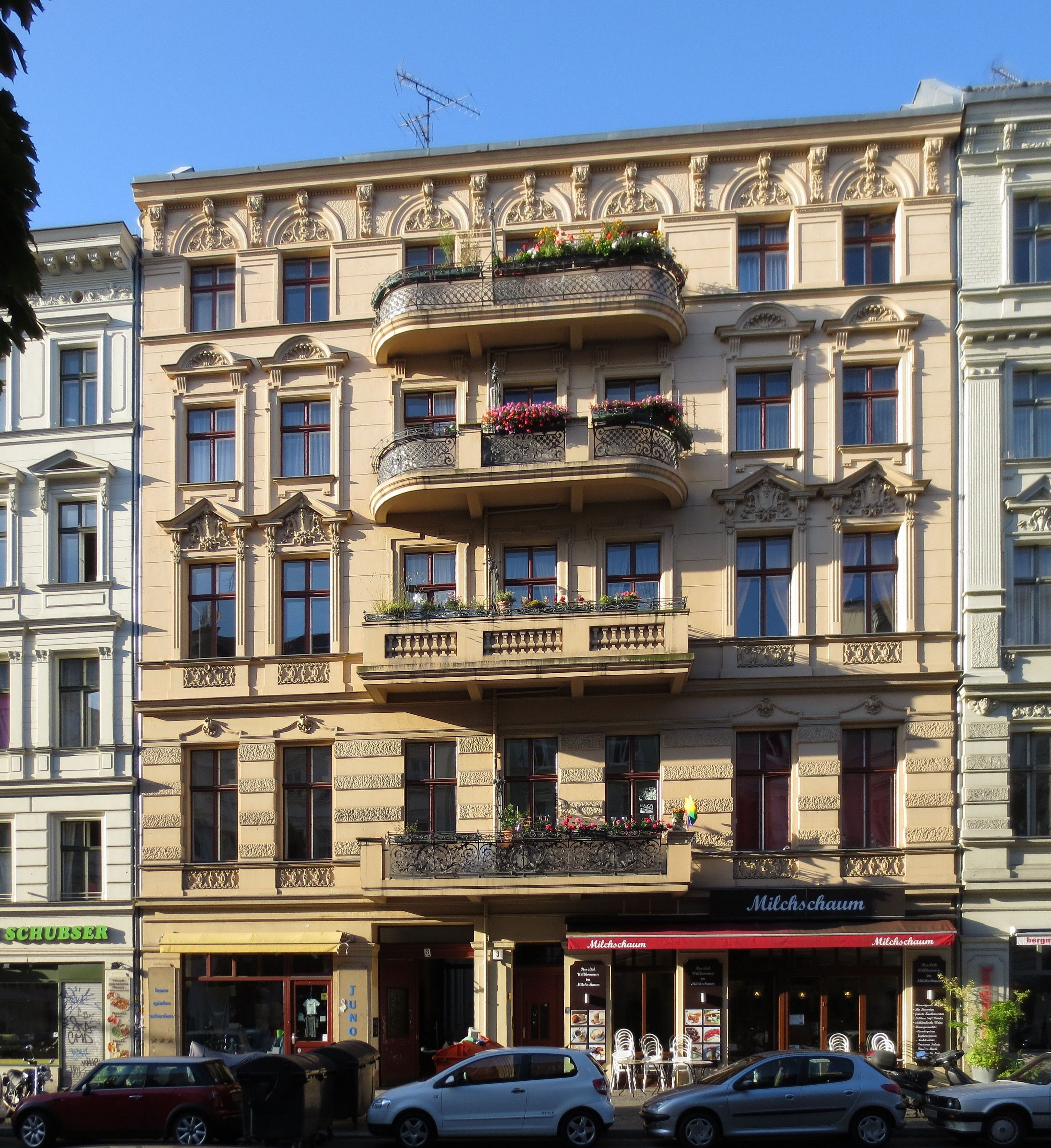 Residential building Bergmannstraße No. 3 in Berlin-Kreuzberg. The house was built in 1893 by Carl Bauer and Albert Weiß. It is part of the protected historic buildings area Mehringdamm No. 73/75.